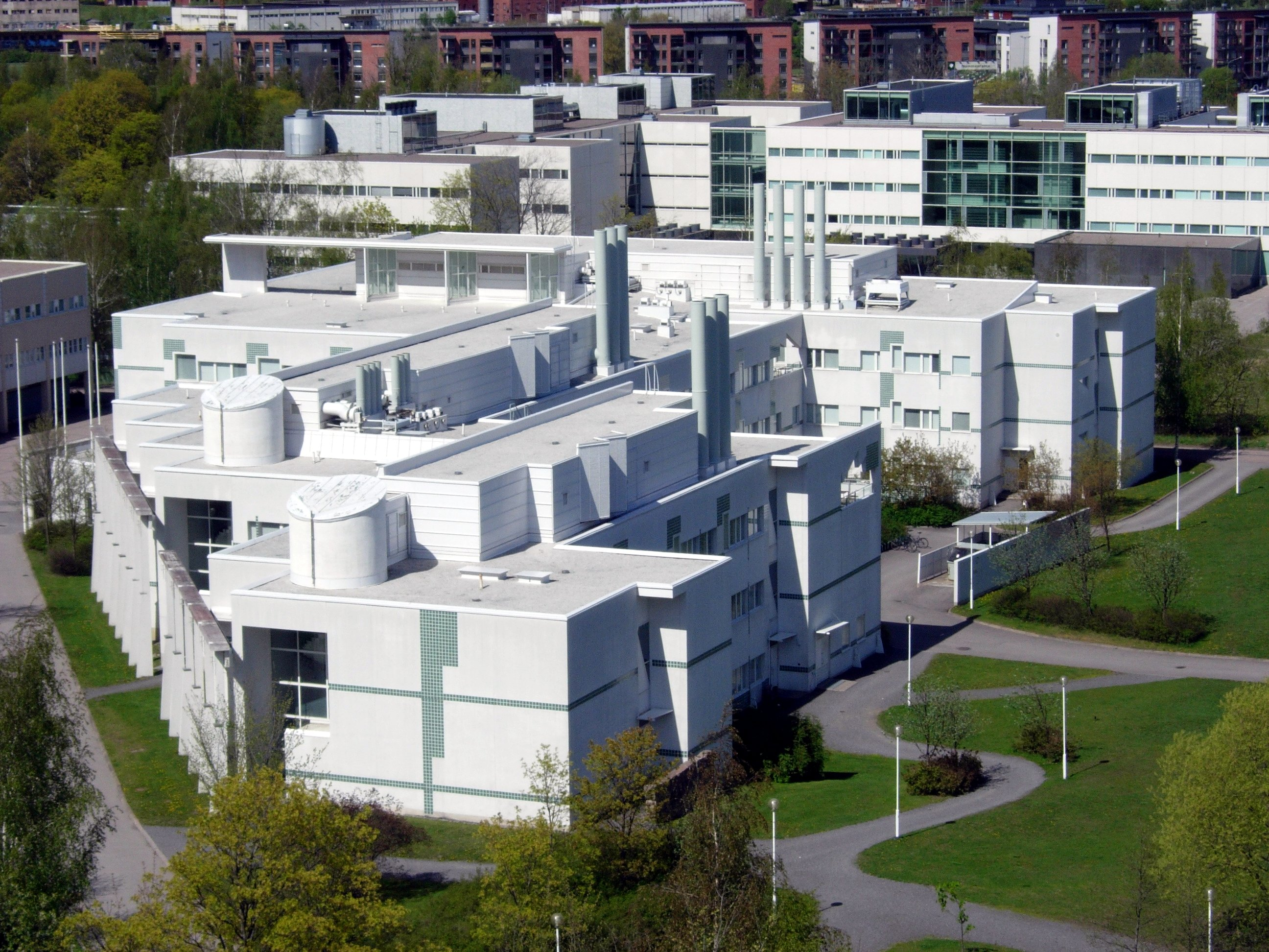 Faculty of chemistry, biochemistry and food chemistry of the University of Turku, Arcanum.